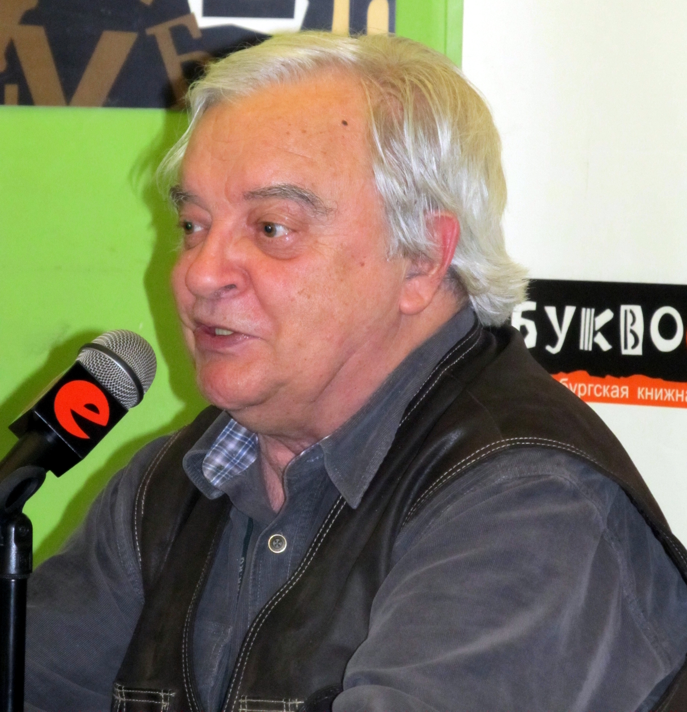 Aleksander Zhitinskiy, Russian writer and publisher (St.Petersburg, 2011)